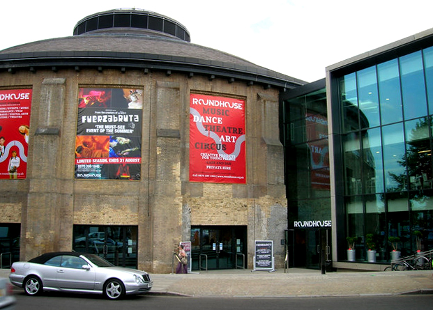 The Roundhouse, Chalk Farm Road, London NW1, near to Camden Town, Camden, Great Britain.